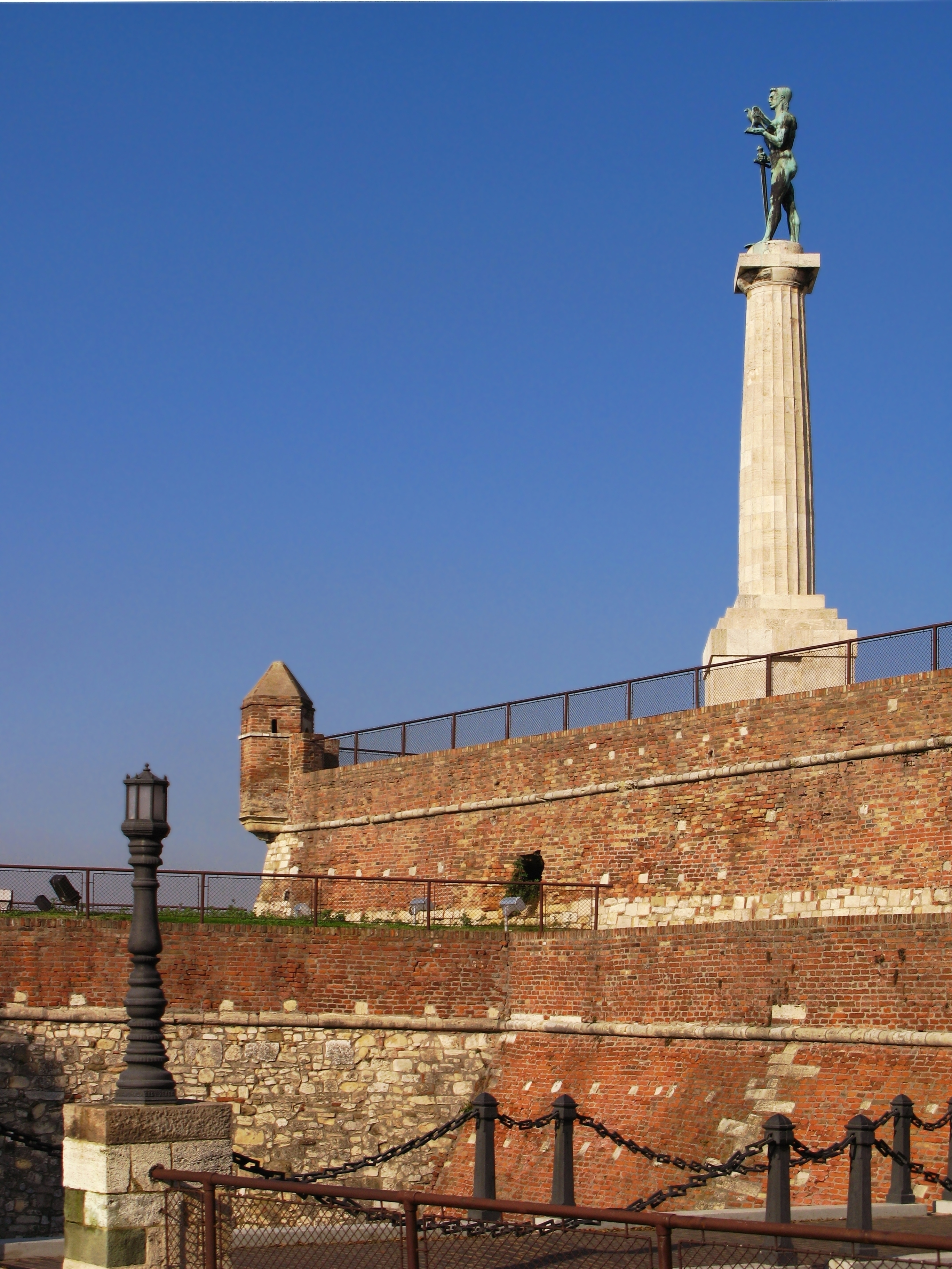 "Pobednik" monument (The Victor) and Kalemegdan fortress walls, Belgrade, Serbia.